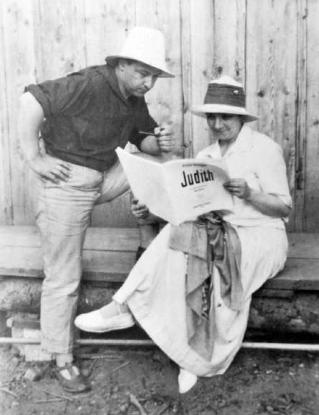 Arthur Honegger (1892-1955) and Claire Croiza (1882-1946) in 1925.